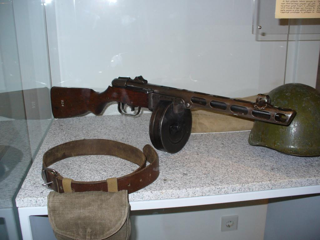 PPSh-41, Russian sub-machine gun during WWII